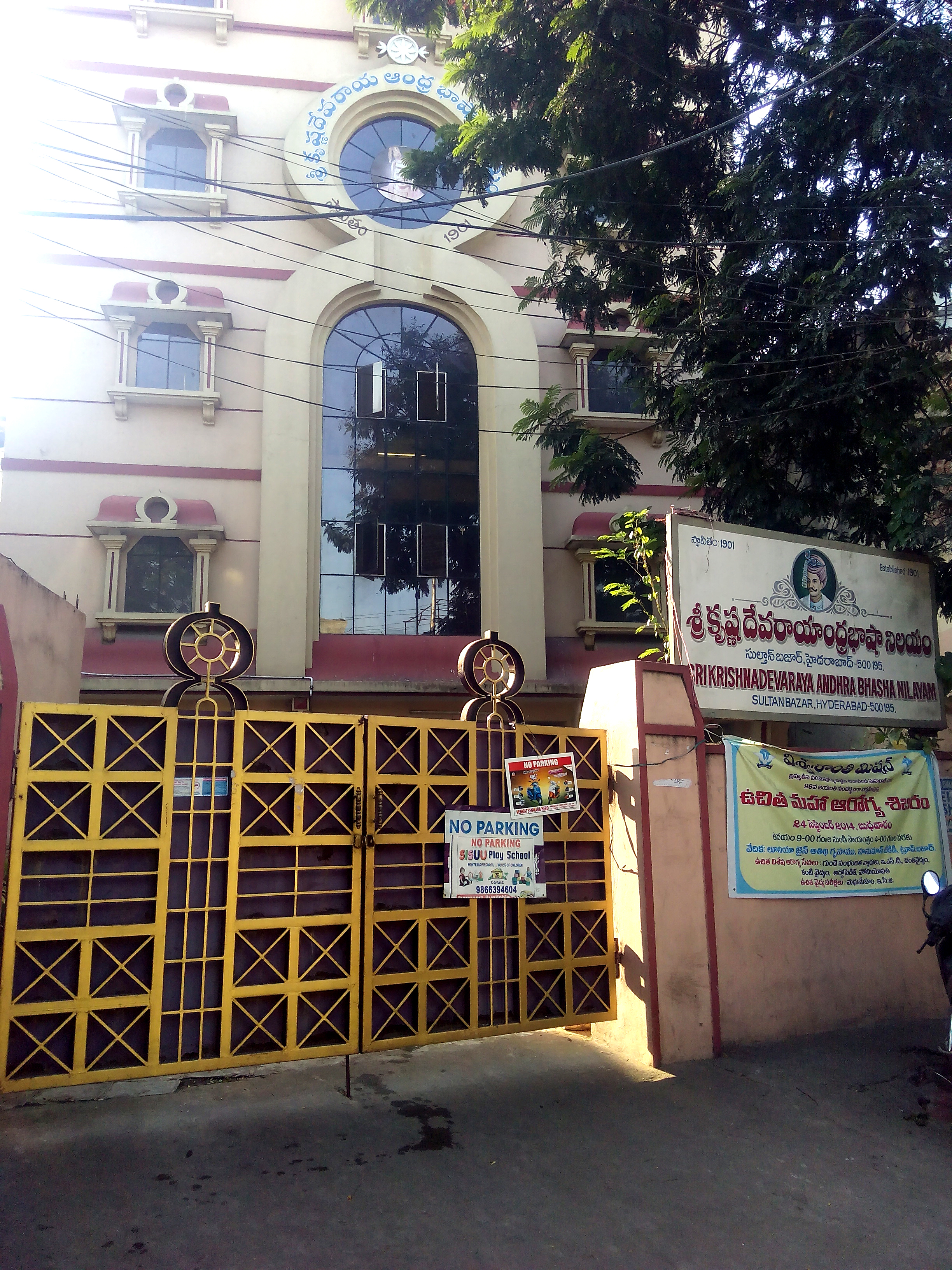 ఇది తెలంగాణాలో అతి పురాతన గ్రంధాలయం, This is oldest library of Telangana State